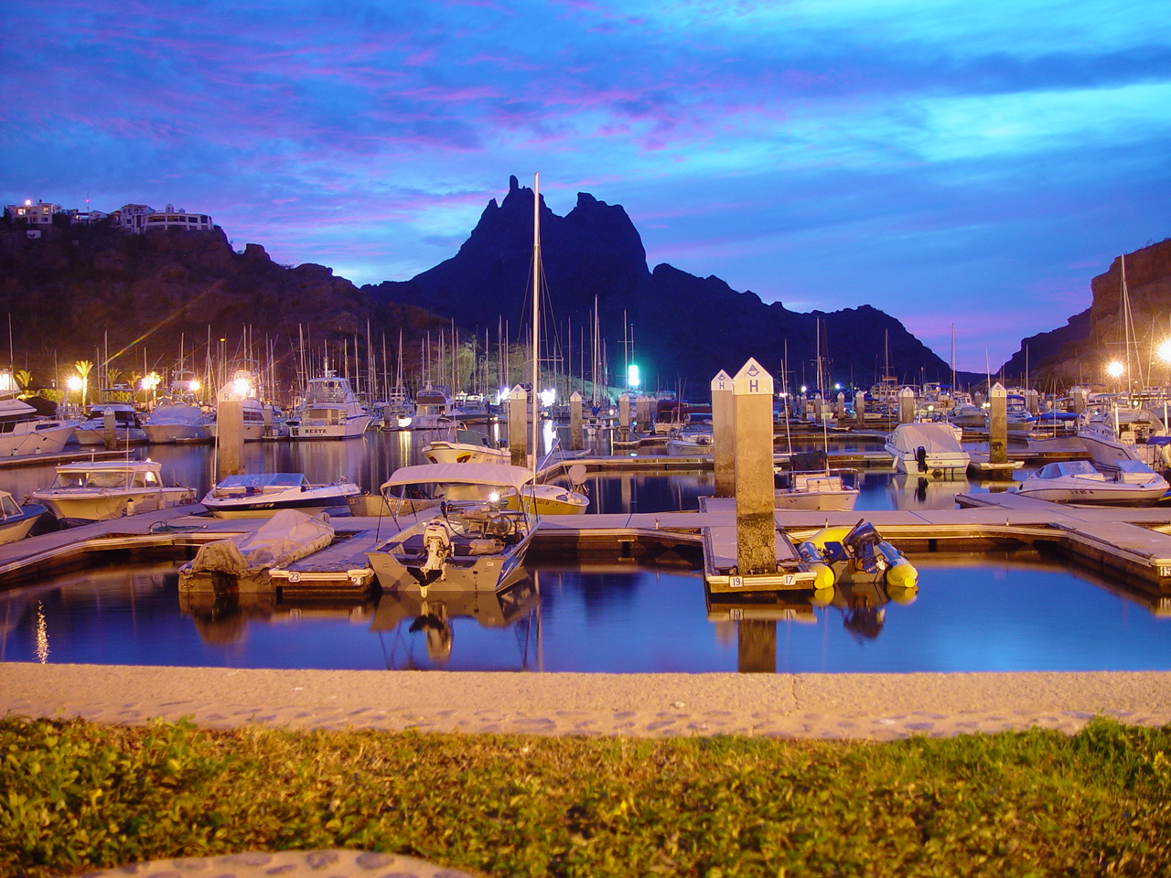 Photo taken in San Carlos harbor, 2005.